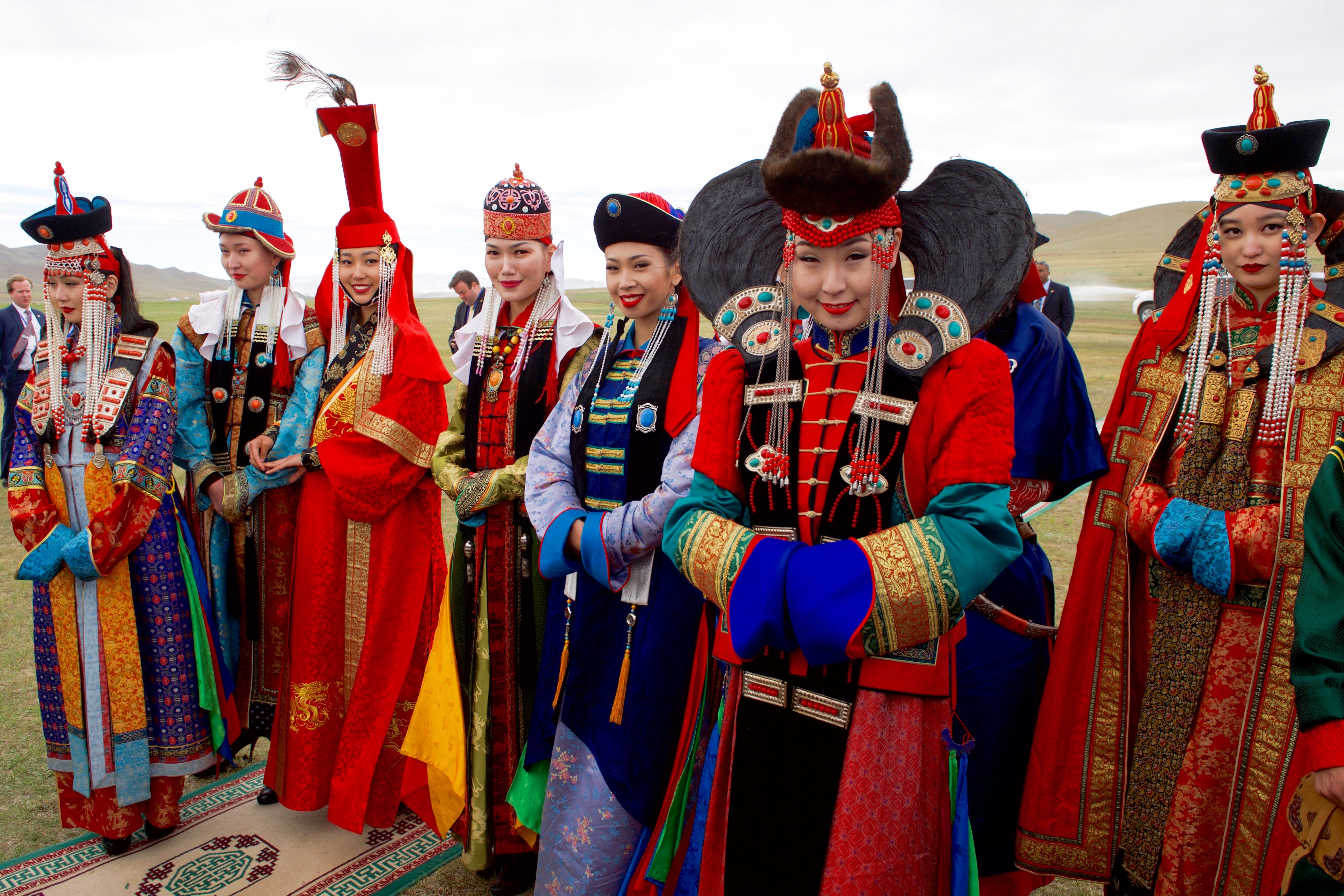 Men and women in traditional Mongolian dress look on as U.S. Secretary of State John Kerry attends a “mini-nadaam” – a display of music, dance, archery, wrestling, and horse-riding – in a field outside Ulaanbaatar, Mongolia, following bilateral meetings on June 5, 2016, with Mongolian President Tsakhia Elbegdorj and Foreign Minister Lundeg Purevsuren. [State Department photo/ Public Domain]